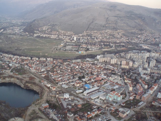 Aerial photograph of Mostar